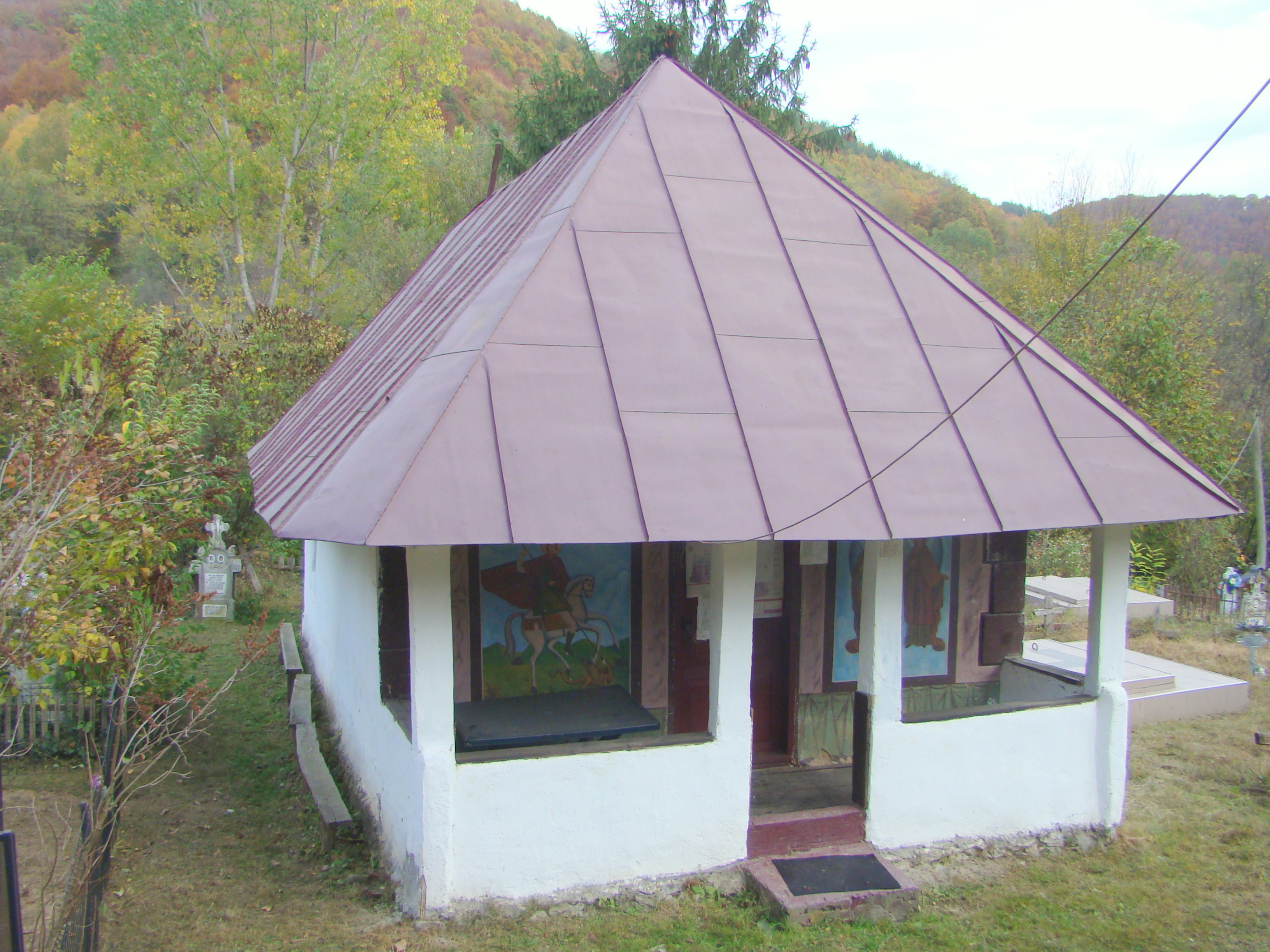 Wooden church in Pistrița, Mehedinți county, Romania